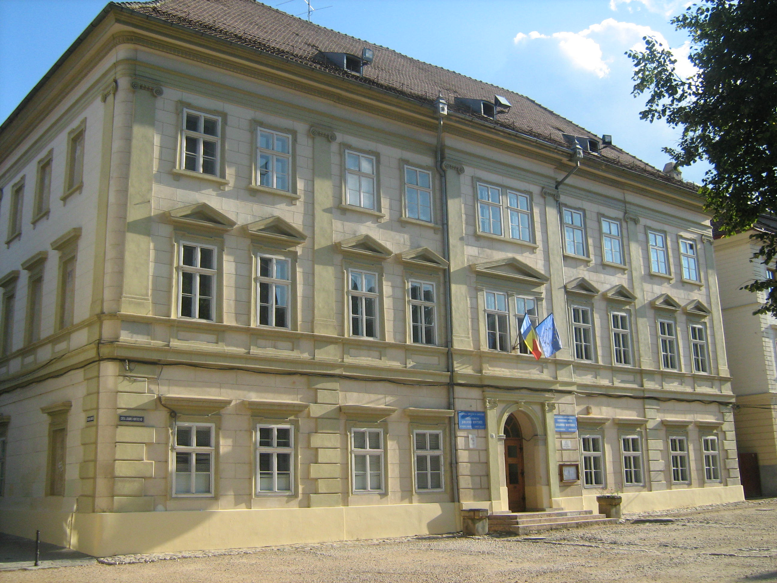 Building B of the Johannes Honterus School in Brașov.